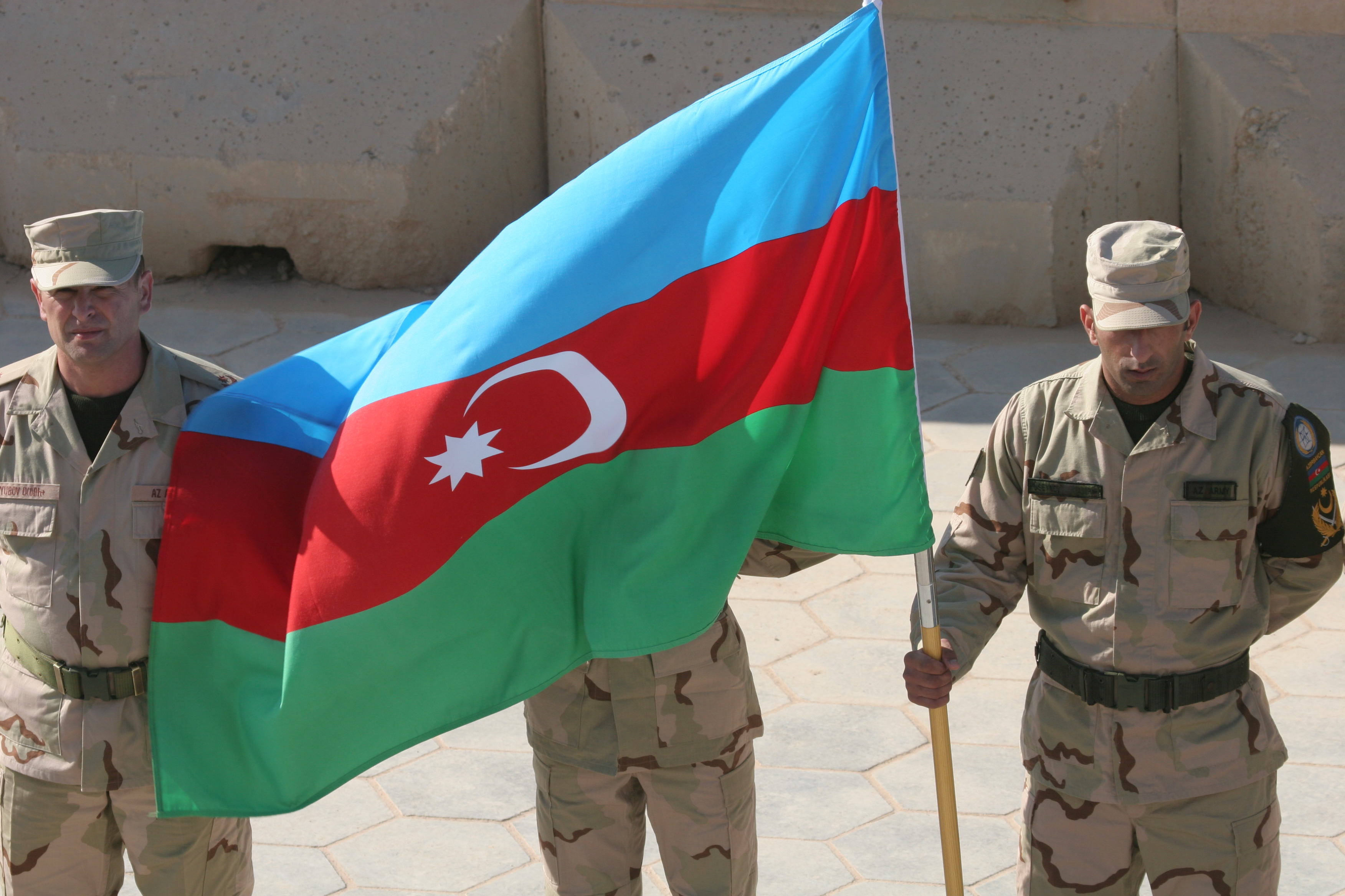 Members of the Azerbaijani color detail stand at parade rest during a recognition ceremony held by Regimental Combat Team 5 at Camp Ripper, Al Asad, Iraq, Dec. 3, 2008. The Azerbaijan forces provided security at the Haditha Dam since August of 2003. VIRIN: 081203-M-8299S-053